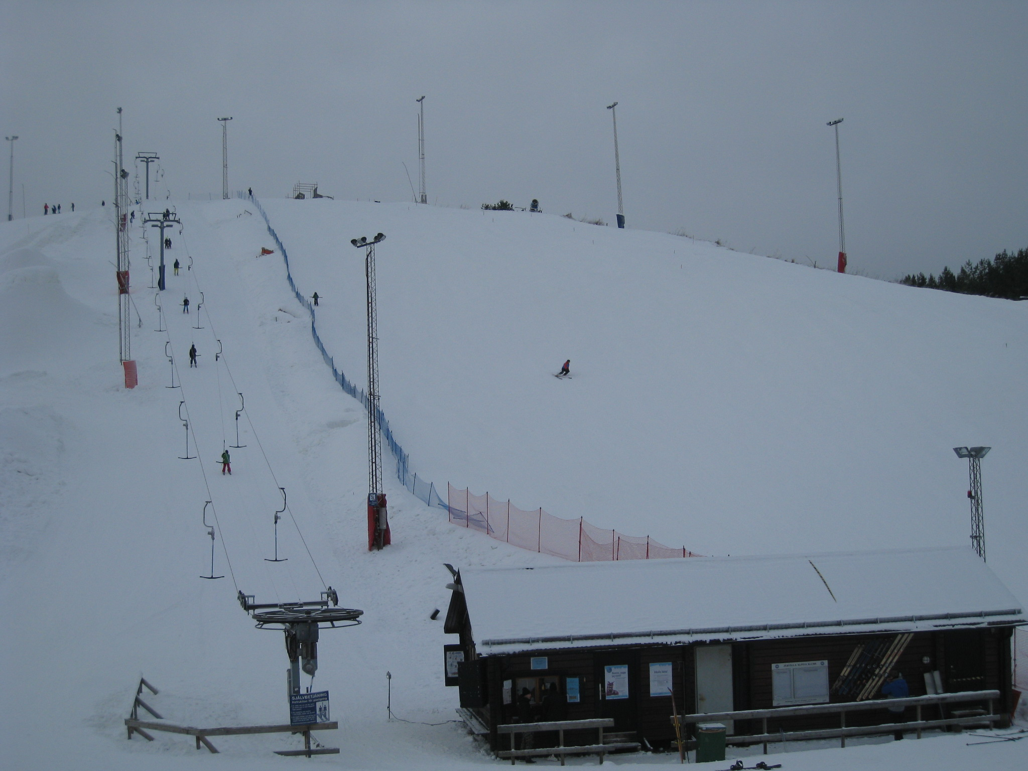 Bruket's ski slope, Järfälla Municipality, western Stockholm.